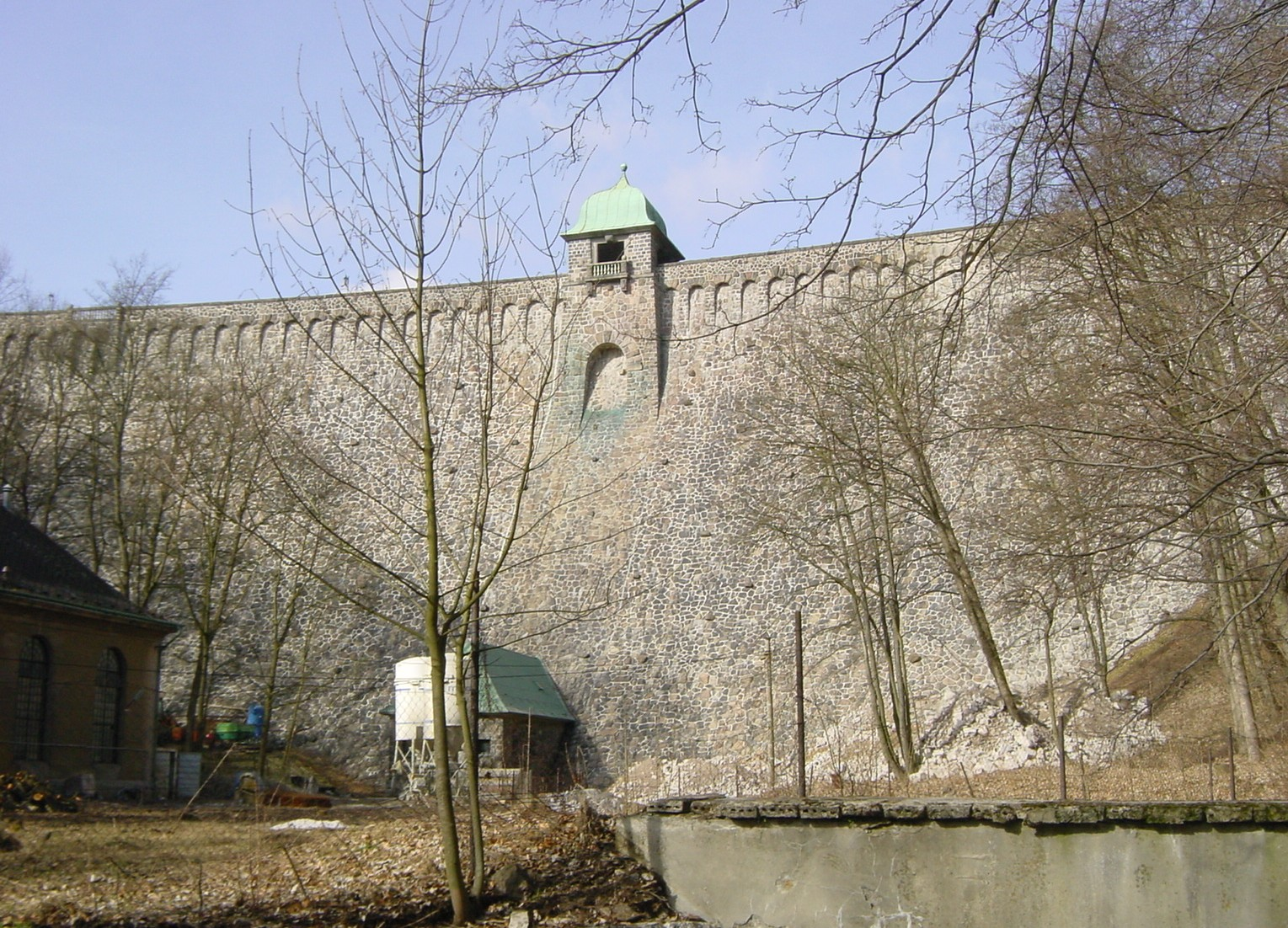 Janov dam in the Czech Republic, near Litvínov, seen from downstream.